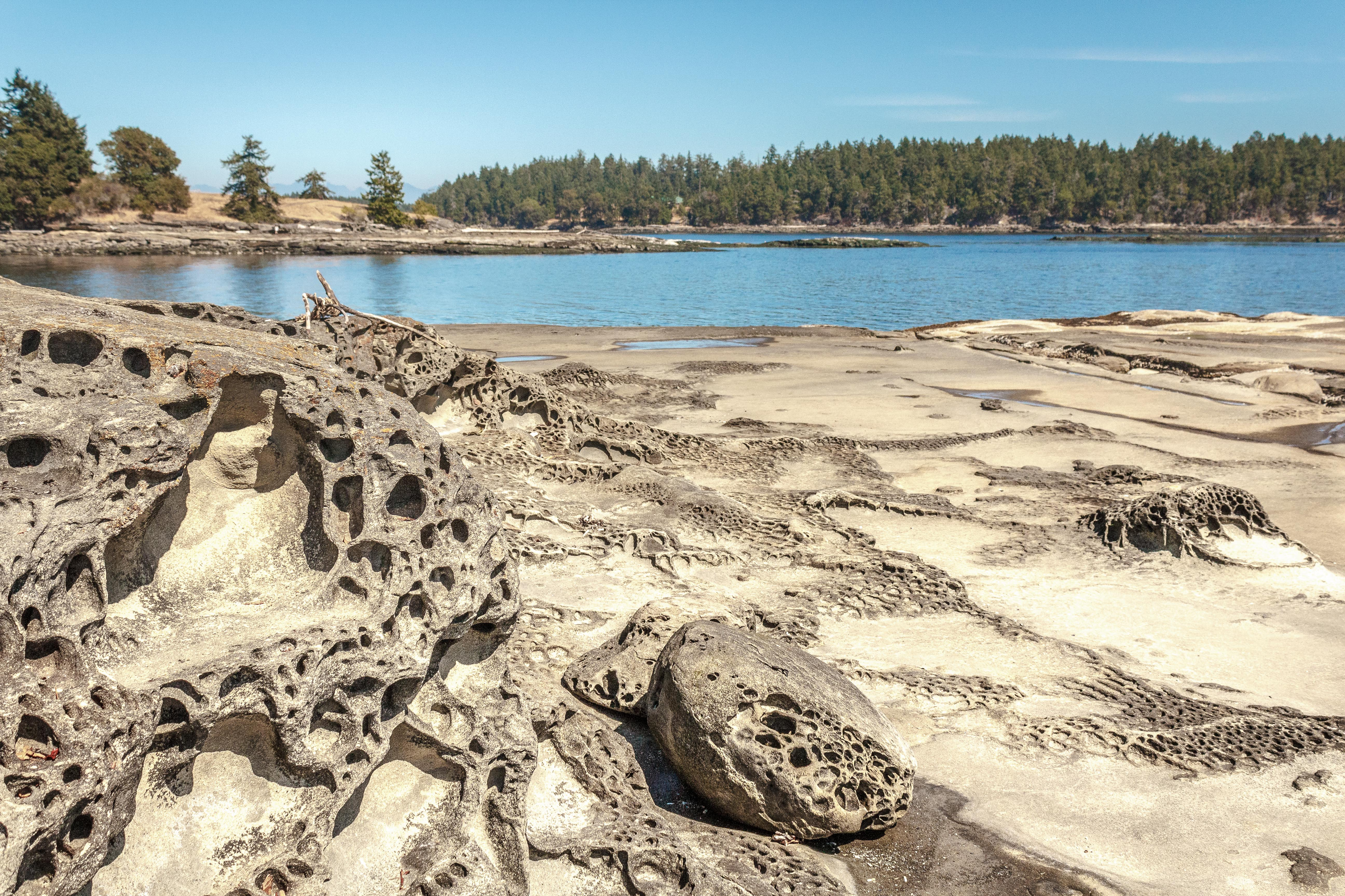 The shoreline along Gabriola Island's Drumbeg Provincial Park is made up of highly eroded sandstone (2017). This photo was taken in a protected area in Canada, Wikidata item Drumbeg Provincial Park (Q5309116)